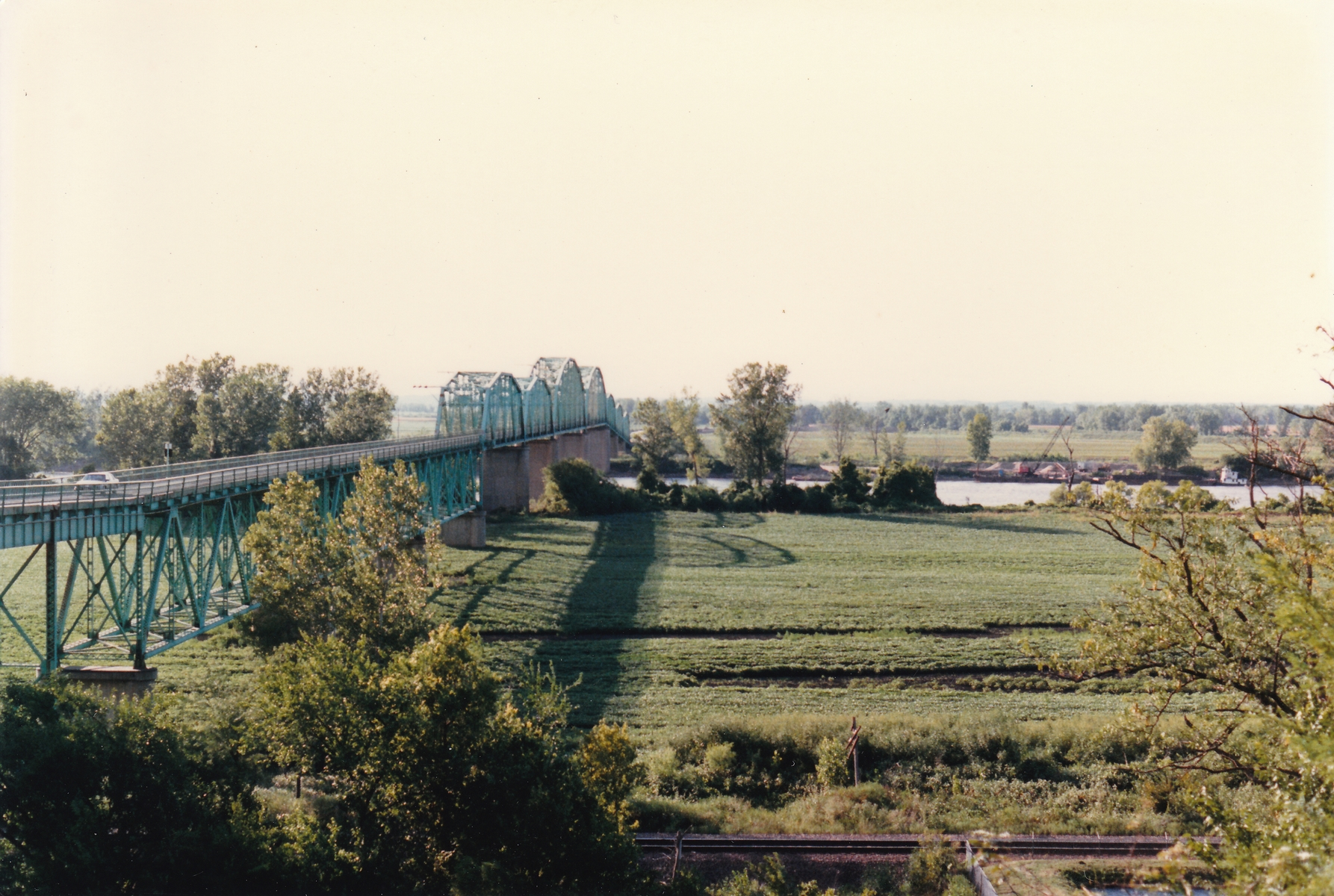 Missouri River, Lexington, Missouri August 22nd, 1987 This bridge has been replaced and demolished since this photo was made. Pentax ME Super